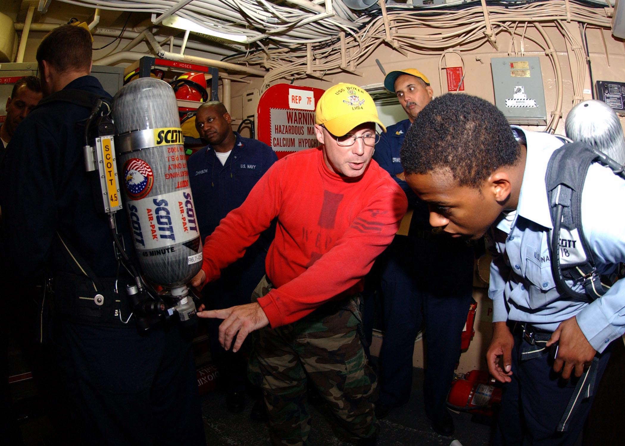 Pacific Ocean (June 8, 2006)- Aviation Ordnanceman 1st Class Jacques Beaver explains how to use the Self Contained Breathing Apparatus (SCBA) to Culinary Specialist Seaman Jonathan Lewis during repair locker training aboard the amphibious assault ship USS Boxer (LHD 4). Boxer is actively transitioning to the SCBA in preparation for their Western Pacific deployment scheduled later this year. U.S. Navy photo by Photographer's Mate Airman Heather L. Hyatt (RELEASED)